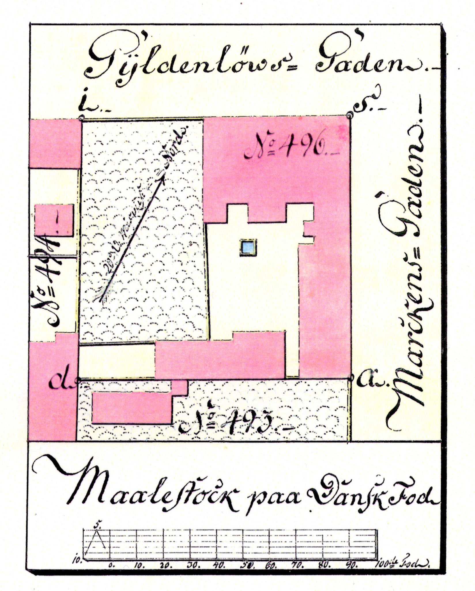 Målebrev tinglyst 1801 Kristiansand, kartdel